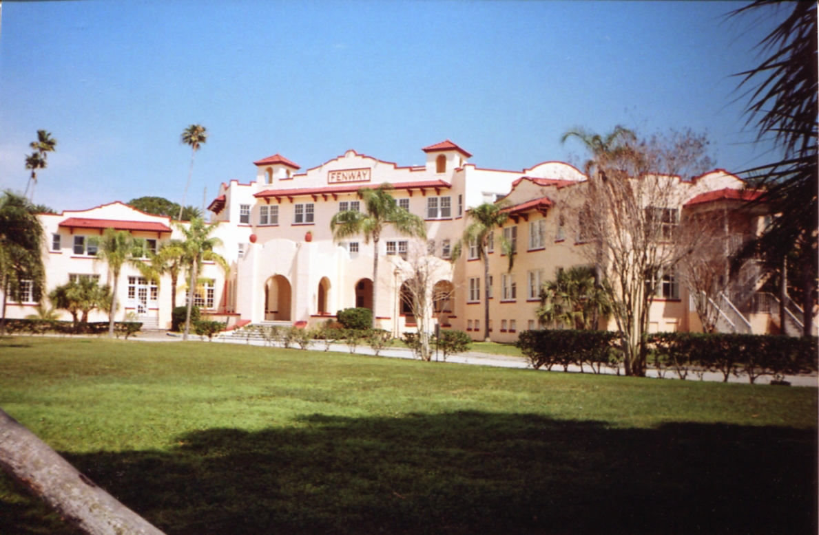 Fenway Hotel, Dunedin, Florida. – Kodak star 435 film camera. Kodak 400 DX film. ISO 400